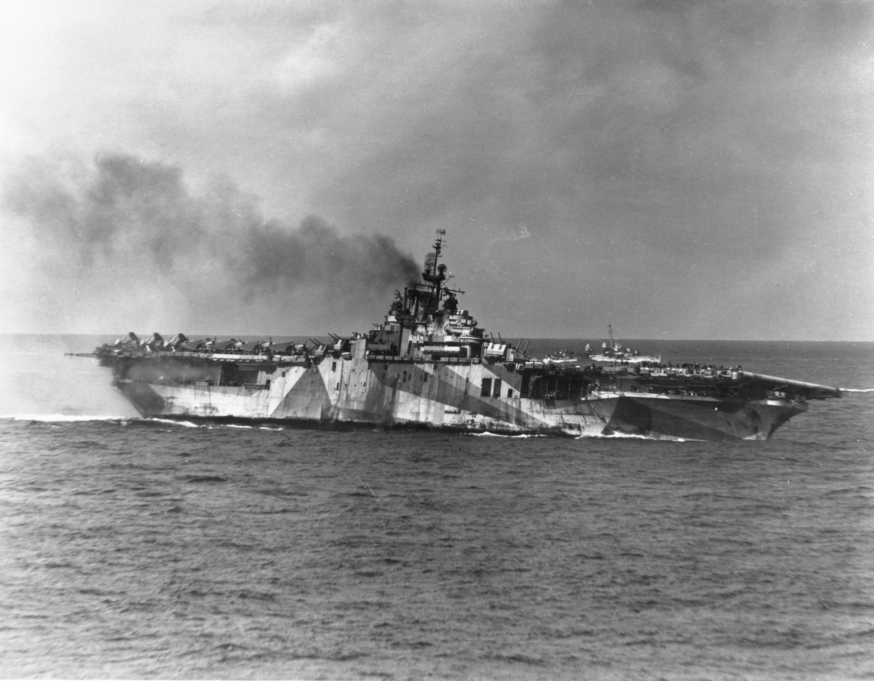 The U.S. Navy aircraft carrier USS Ticonderoga (CV-14) lists to port in the aftermath of a kamikaze attack in which four suicide planes hit the ship, 21 January 1945. Note her camouflage scheme measure 33/10A and the Fletcher-class destroyer in the background.